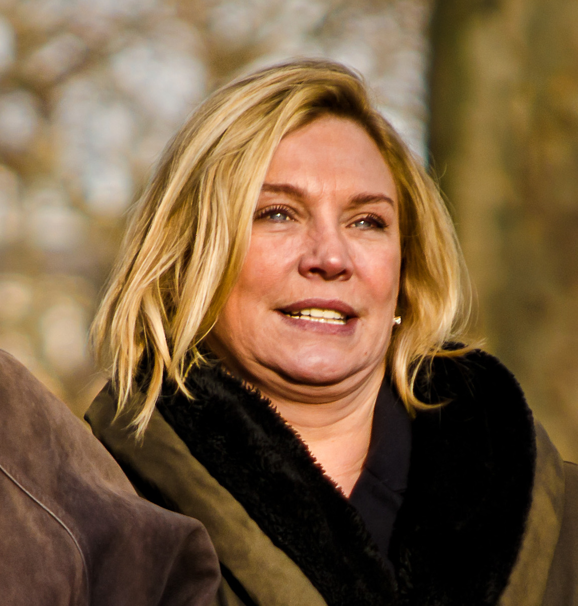 Amanda Redman, English actress, filming New Tricks on location in St James's Park.